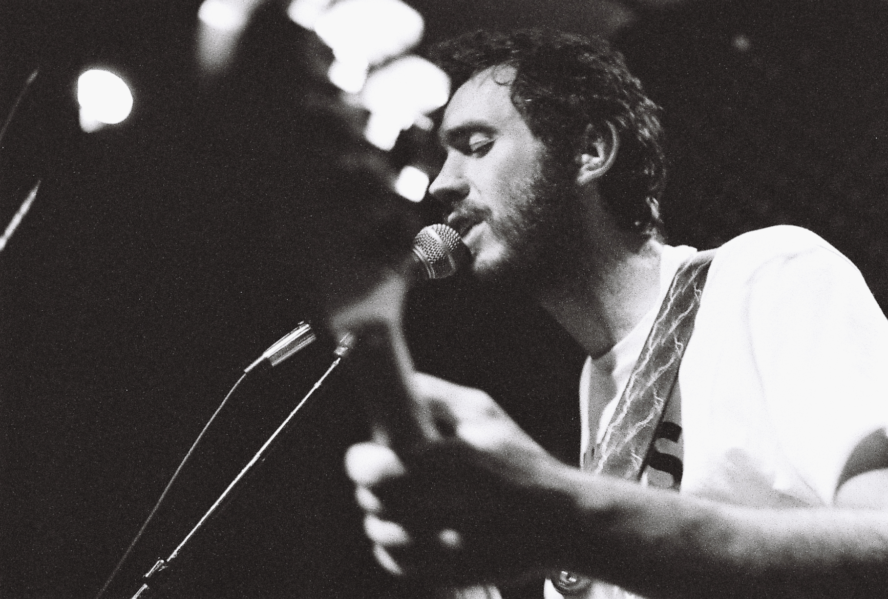 Ben Gallaty of Andrew Jackson Jihad playing bass guitar in Minneapolis, MN, on November 6, 2012 at the Triple Rock Social Club. Shot on Kodak T-Max p3200 film at EI 6400, if anyone is interested.